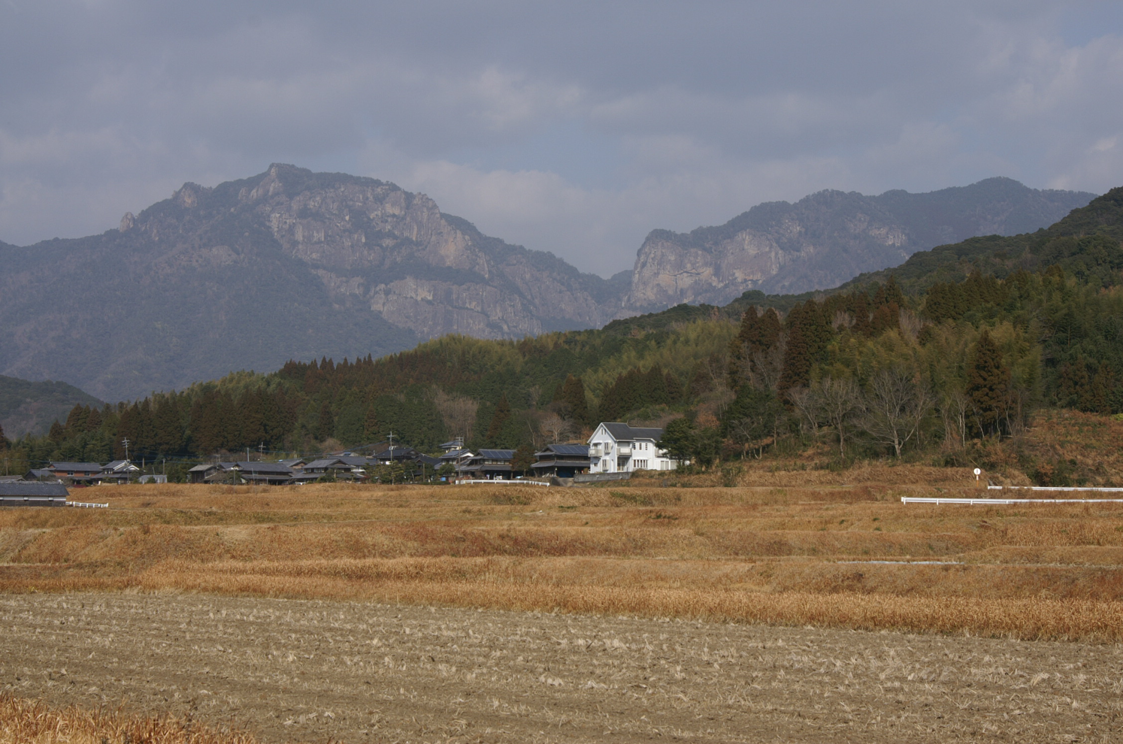 Mount Mukabaki as seen from the southeast in Nobeoka, Miyazaki Prefecture, Japan.